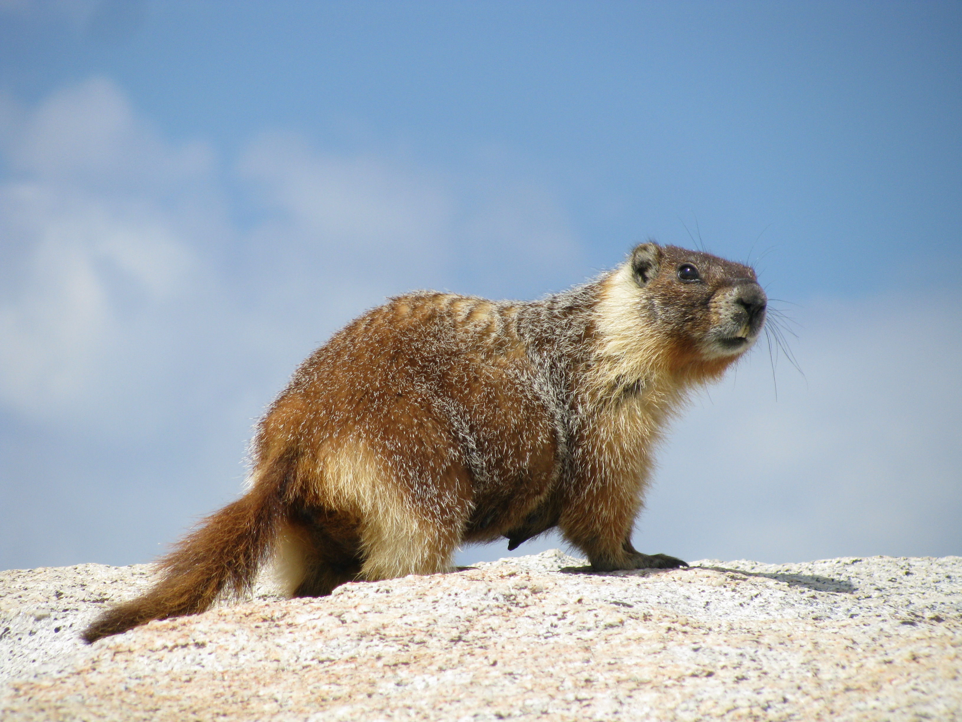 Marmota flaviventris - yellow bellied marmot Location: Top of Half Dome, Yosemite, CA, USA